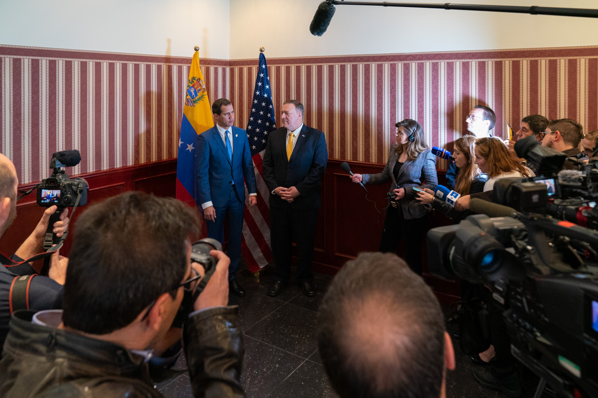 Secretary of State Michael R. Pompeo met with Venezuelan Interim President Juan Guaidó and participated in a joint press availability in Bogotá, Colombia, on January 20, 2020. [State Department Photo by Ron Przysucha/ Public Domain]